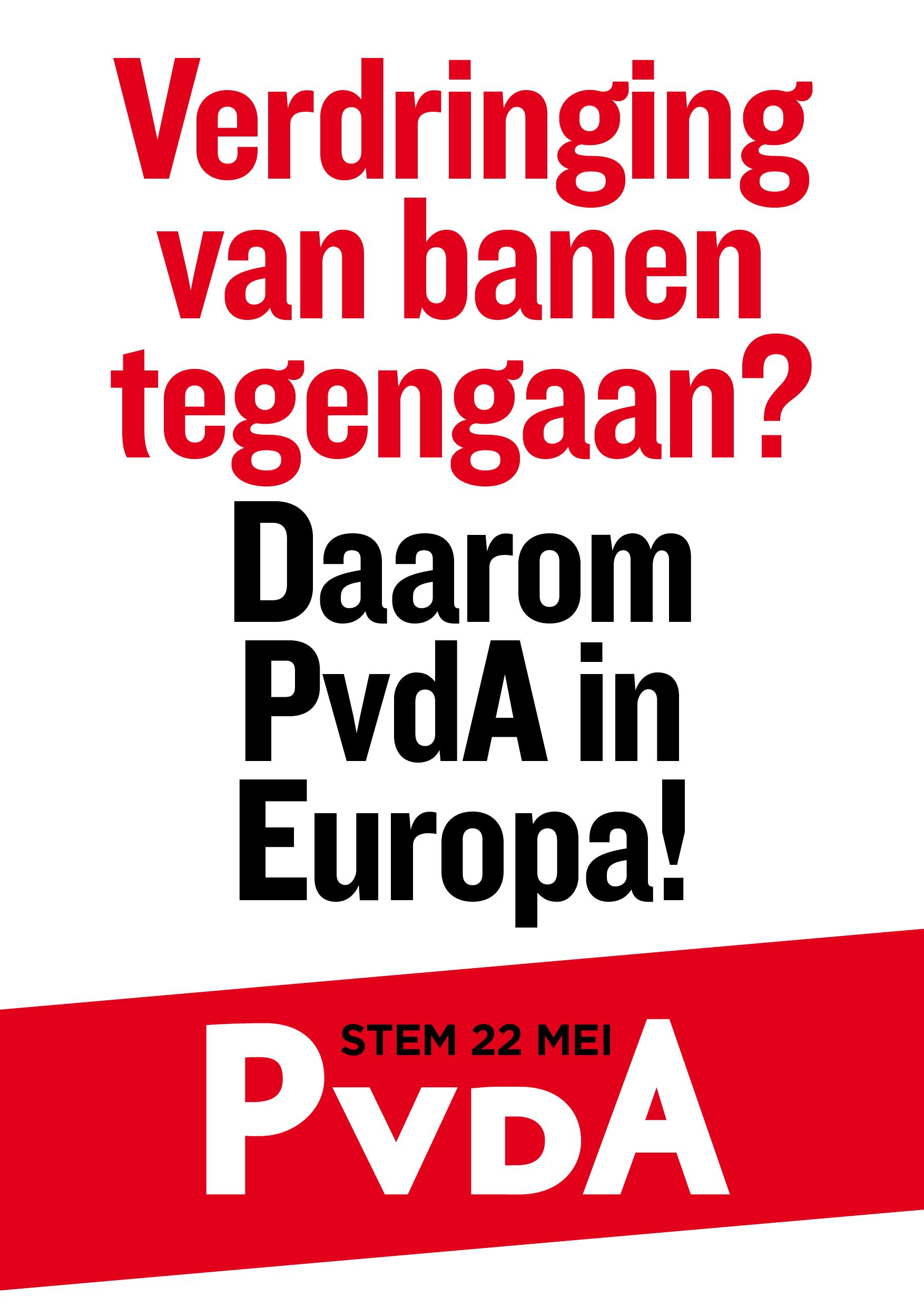 Poster voor de verkiezingen voor het Europees Parlement op 22 mei 2014.